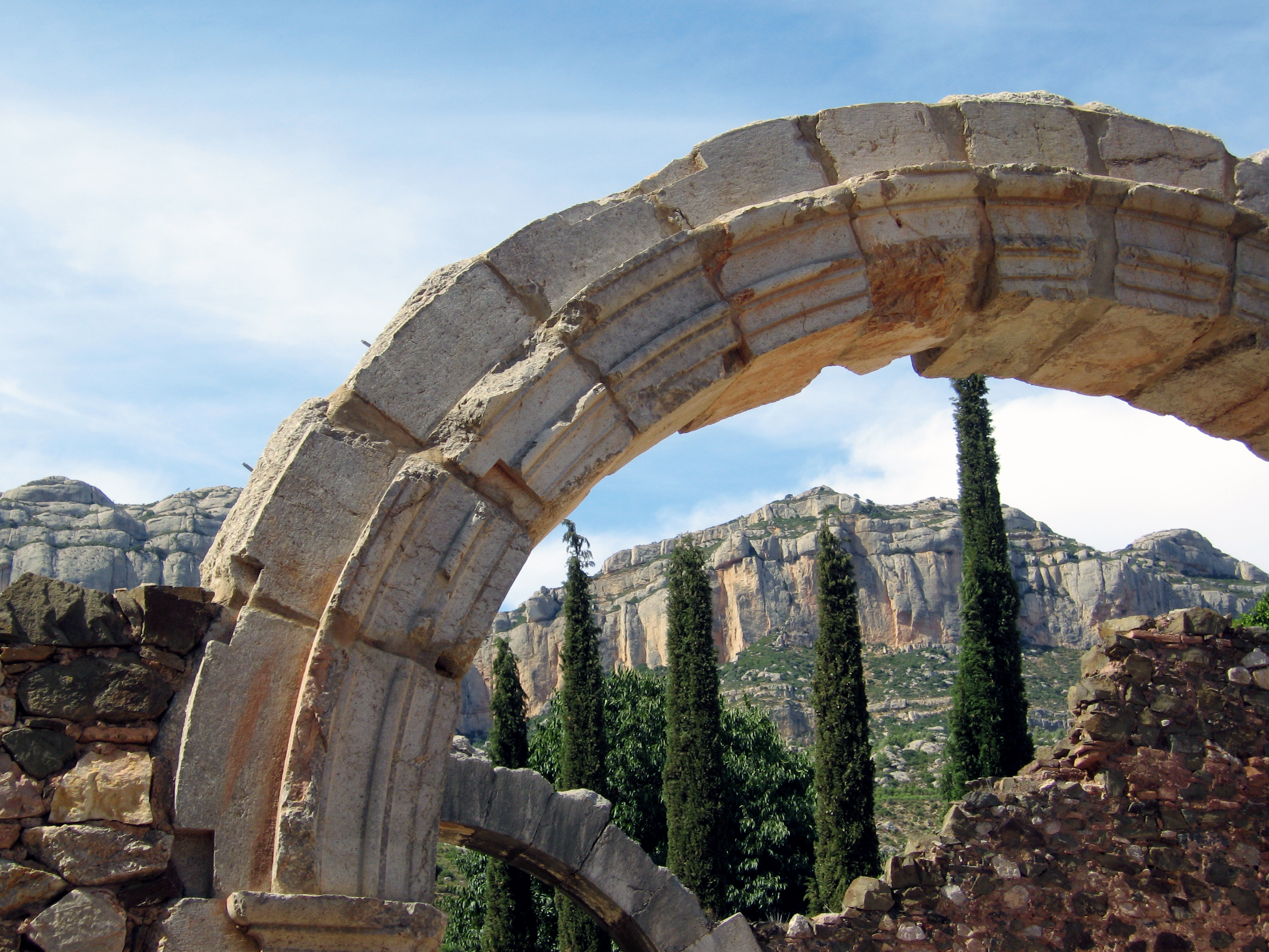 Ruines of the former carthusian monastery “Cartoixa d’Escaladei” in the Montsant mountains (Catalonia, Spain).